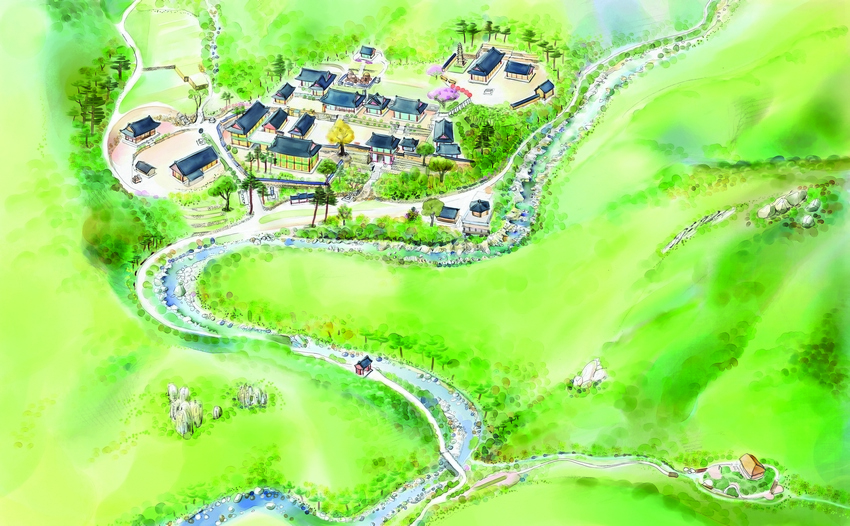 The Daewon temple in South Korea